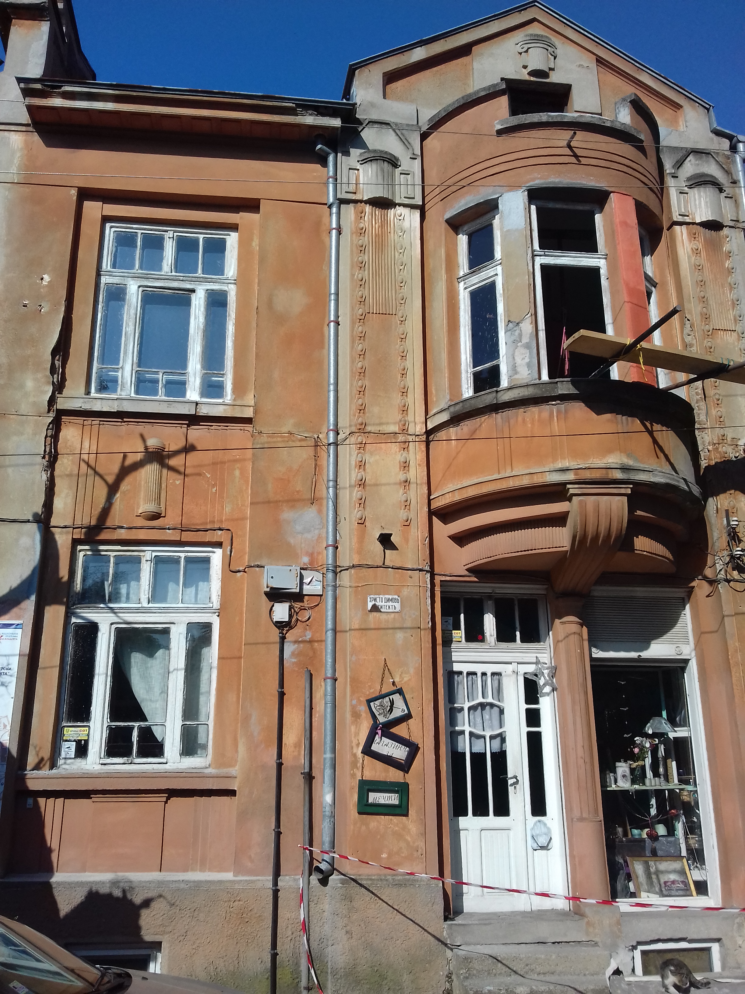 Hristo Dimov's House, Stara Zagora